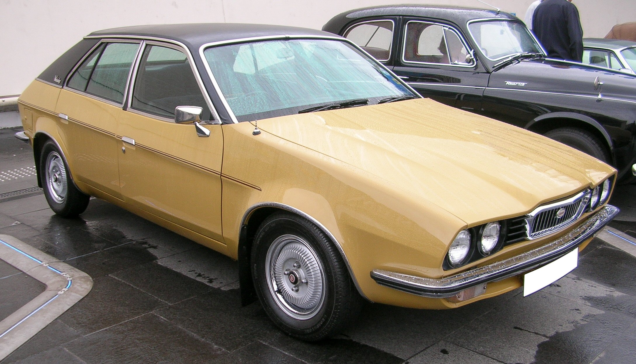 A 1975 Wolseley 2200 saloon. Seen outside the Coventry Transport Museum during the Coventry Festival of Motoring 2006. This car model was the last to be badged Wolseley, and was only produced from March 1975 to September 1975.[1]